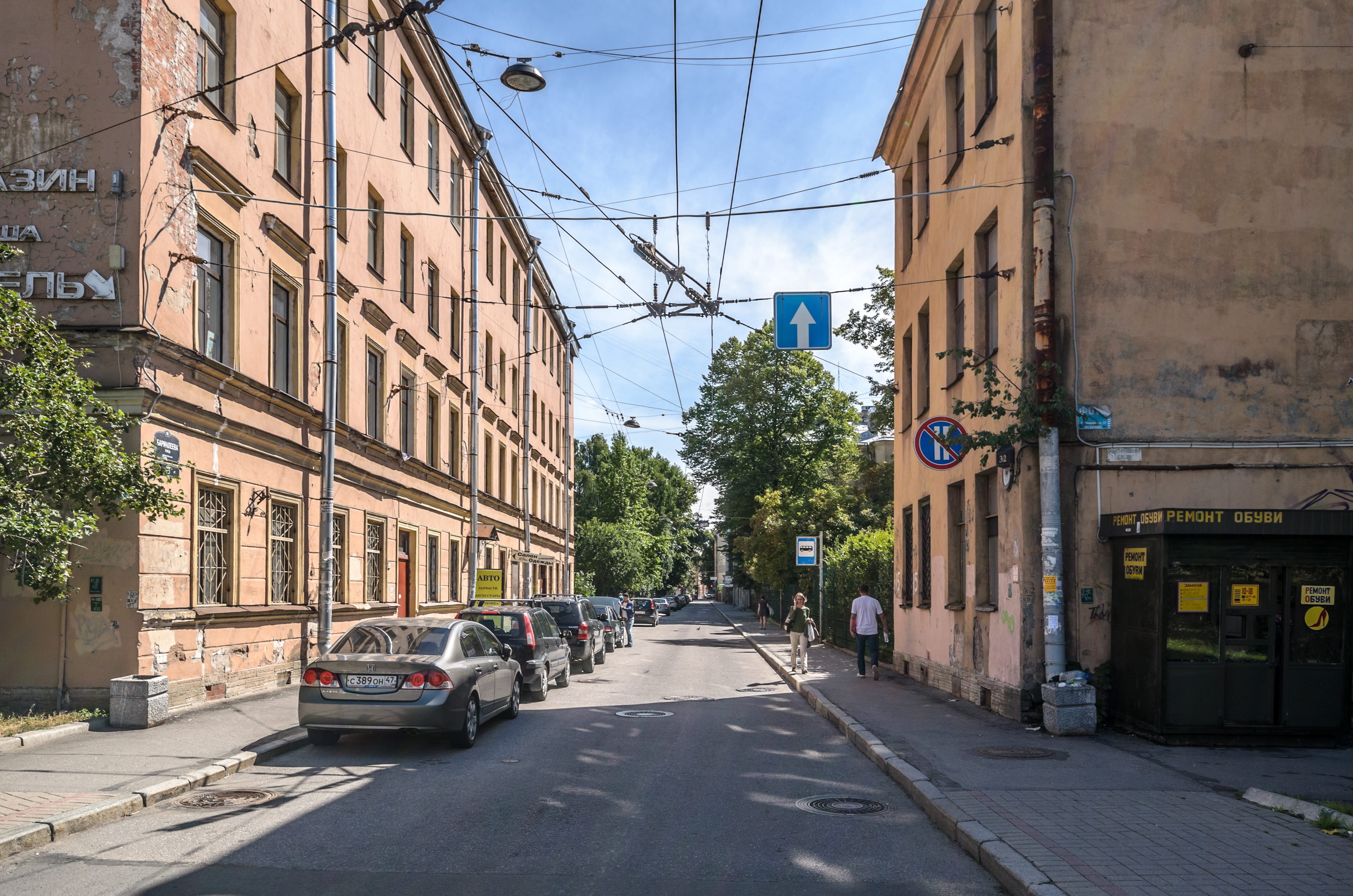 Barmaleeva Street in Saint Petersburg